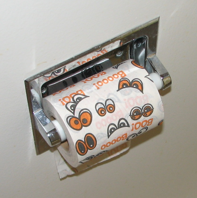 This file is a cropped version of the Flickr photo. Original name:"Dec 11 2009 002" Original caption: "fancy halloween toilet paper at Adele's aunt-in-law's house!"